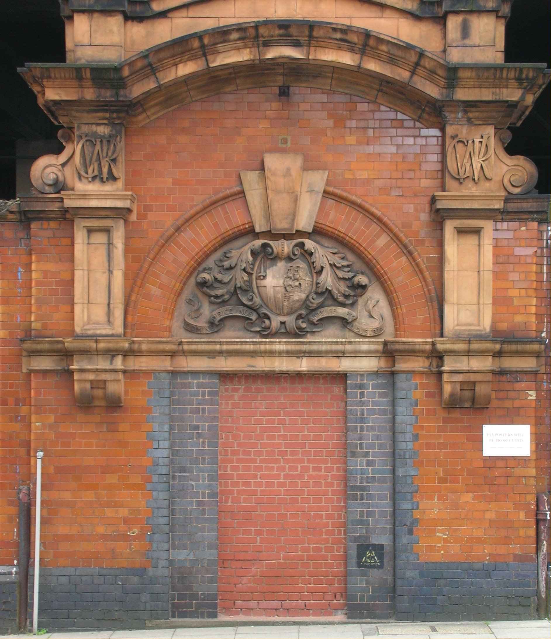 An original part of the almost completely demolished Snow Hill Station, Livery Street, Birmiingham, England. Photographed by me. Oosoom